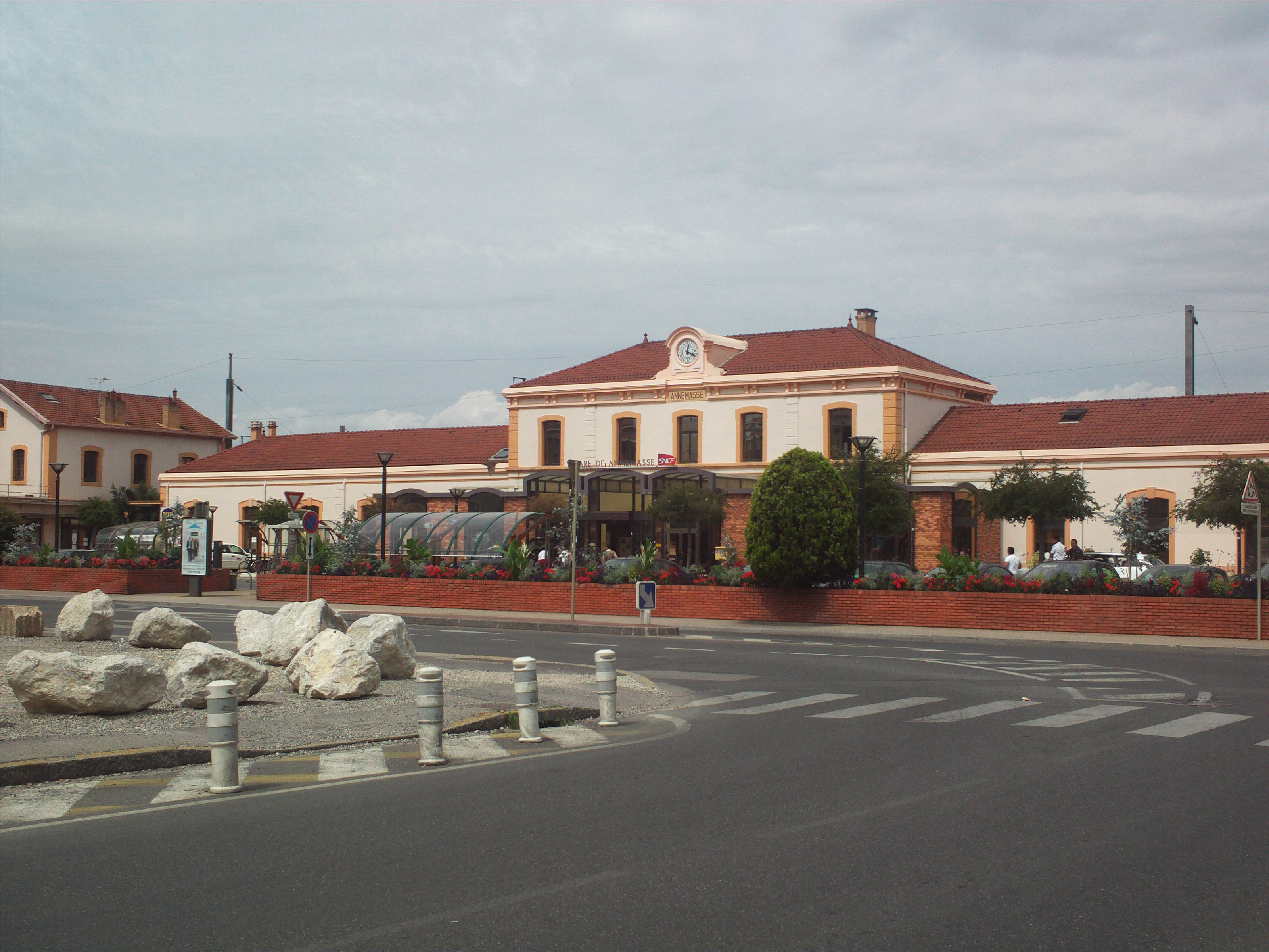 Annemasse railway station. In Annemasse, France.